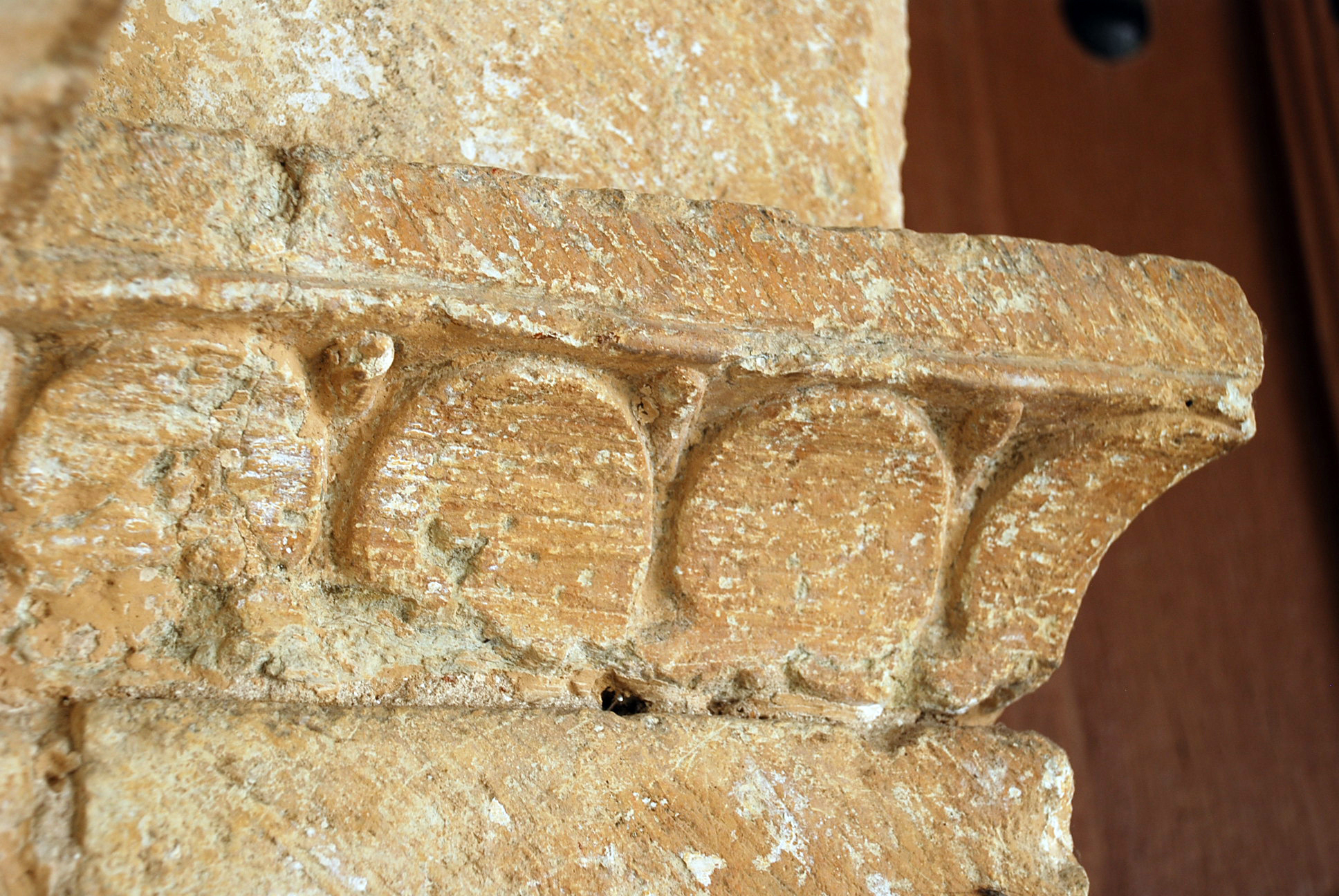 Cimacio with secant circles of the portal of the church of Santa Lucía in Collazos de Boedo (Palencia, Castile and León).